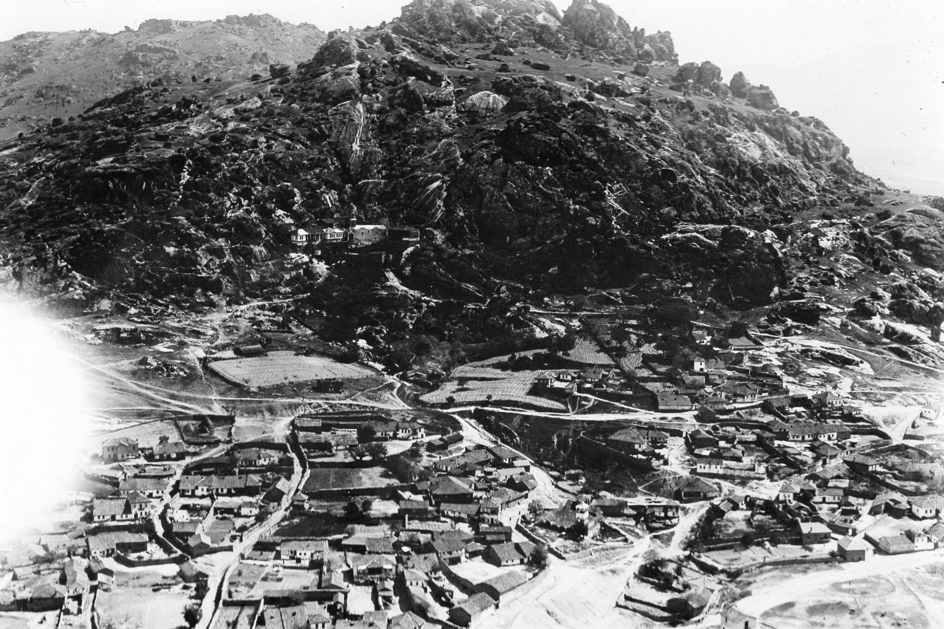 Prilep, photo from 1930 This media file is produced by Wikipedian in Residence in Category:Wikipedian in Residence at DARM in 2016.